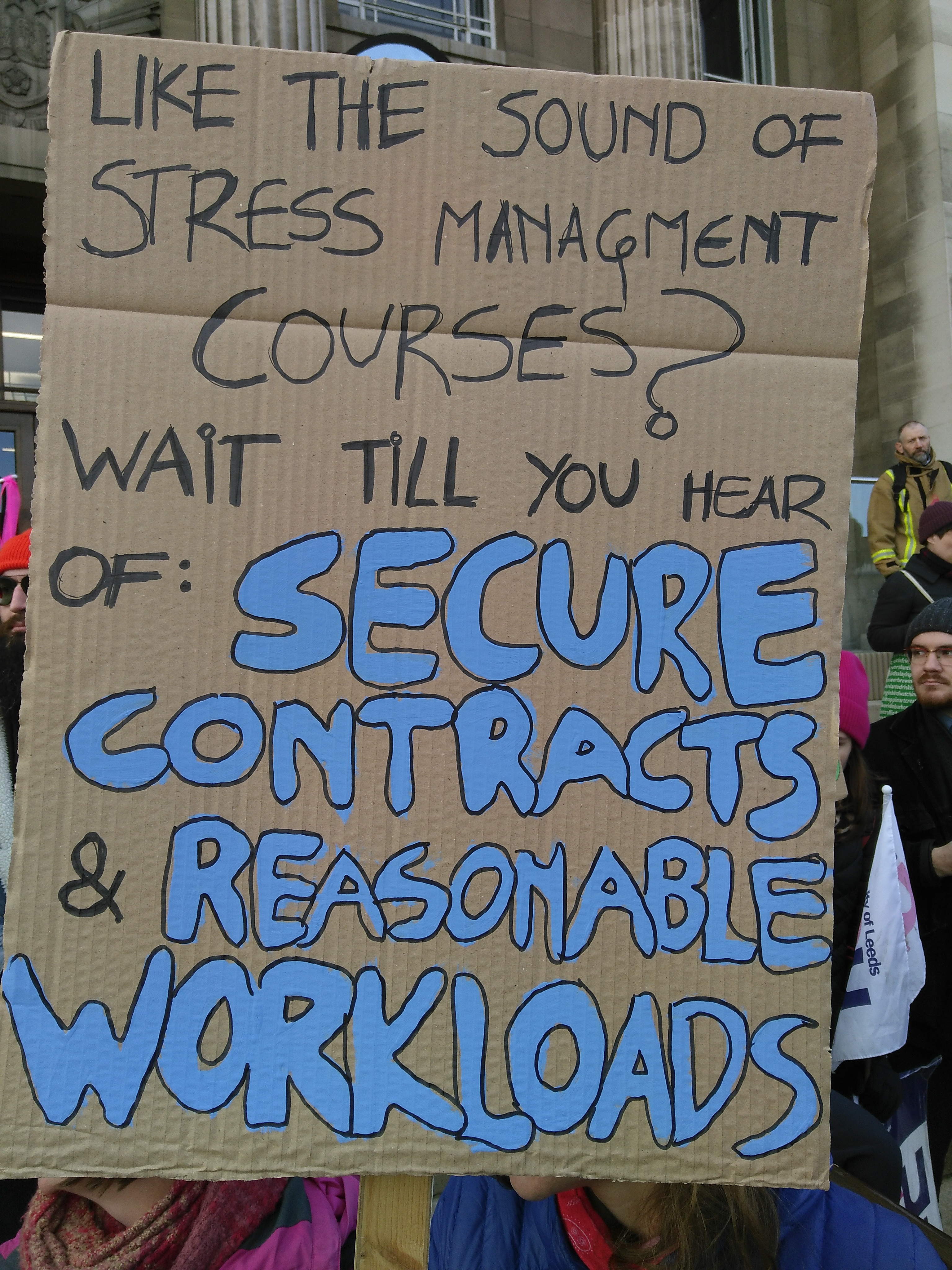 University of Leeds UCU placard re secure contracts